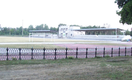 Yunist Stadium, Varva, Ukraine